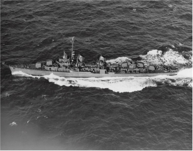 The U.S. Navy destroyer USS Conner (DD-582) underway at sea, circa in 1944. In August 1944, Conner was repainted in Camouflage Measure 31, Design 16D.